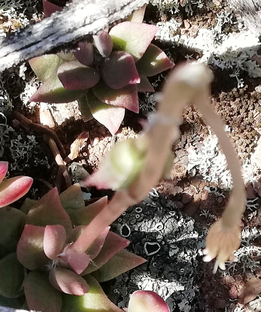 Anacampseros telephiastrum